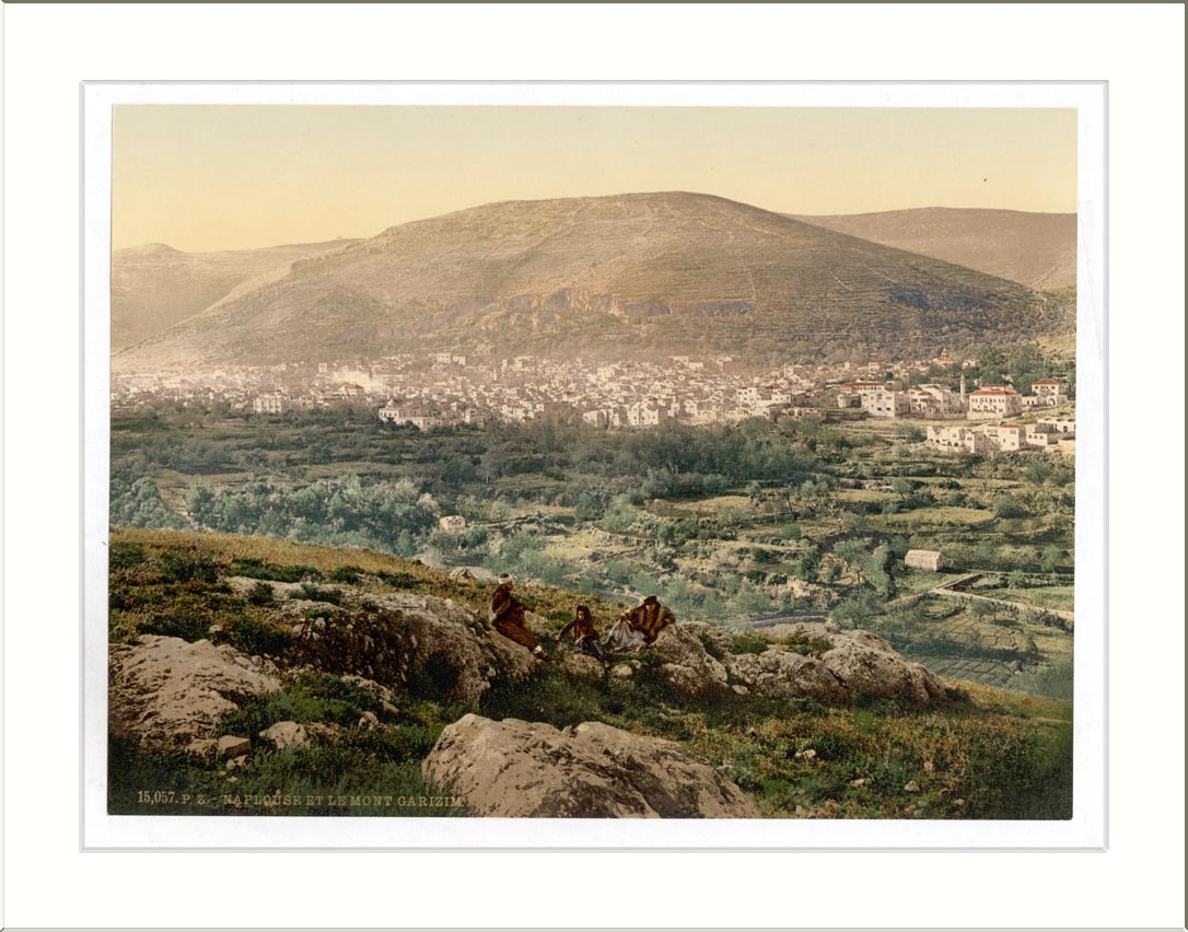 Napulus and Mount Gerizim Napulus Holy Land (i.e. Nablus West Bank)